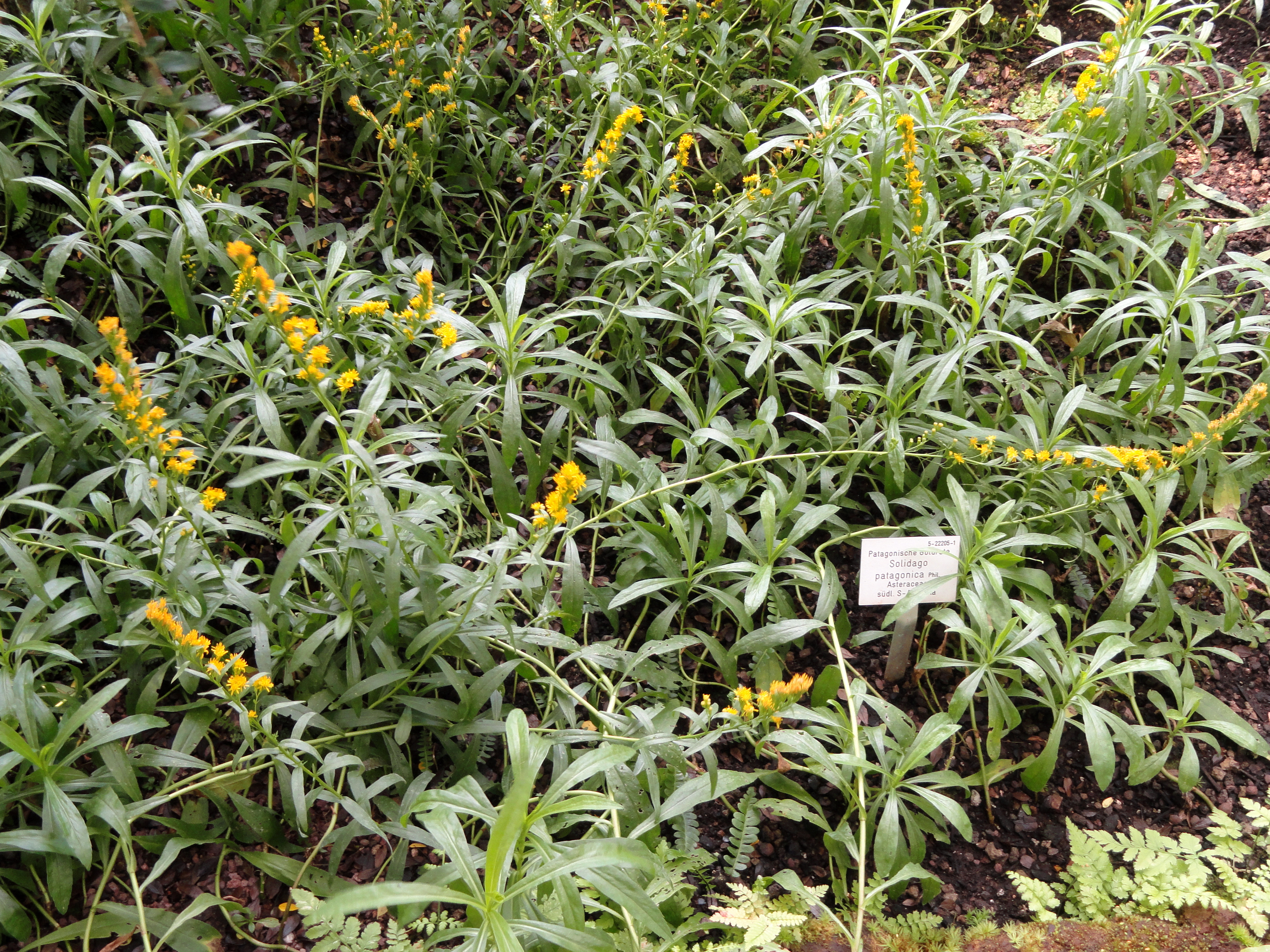 Botanical specimen in the Palmengarten, Frankfurt am Main, Germany.